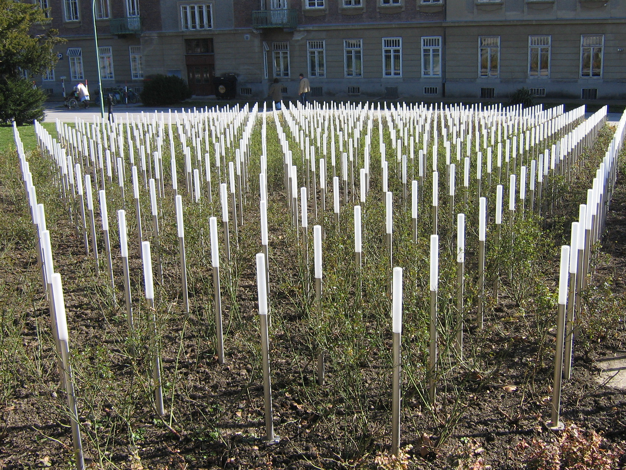 Memorial for "Spiegelgrund" victims at Otto Wagner Hospital, Vienna